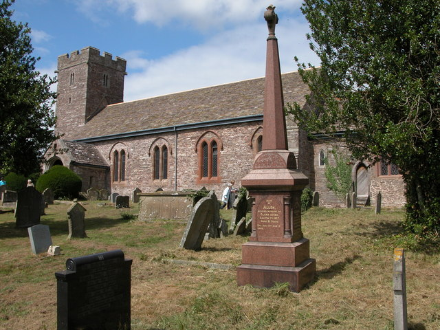 Llanvihangel Crucorney Church. The church is dedicated to St Michael & All Angels.